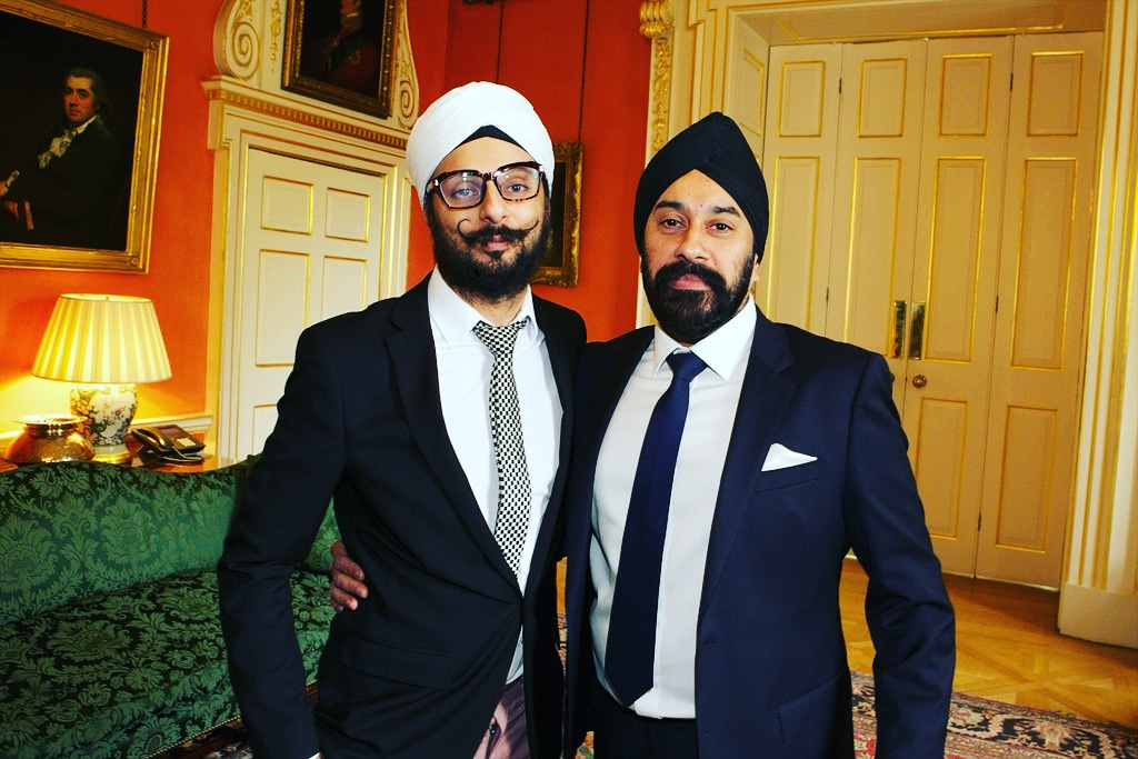 Peter Bance - largest private collector of Maharaja Duleep Singh artefacts with Param Singh the Deputy Chairman of City Sikhs at Number 10 Downing Street